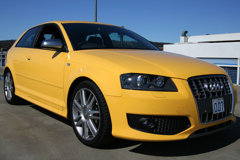 Audi S3 (8P)